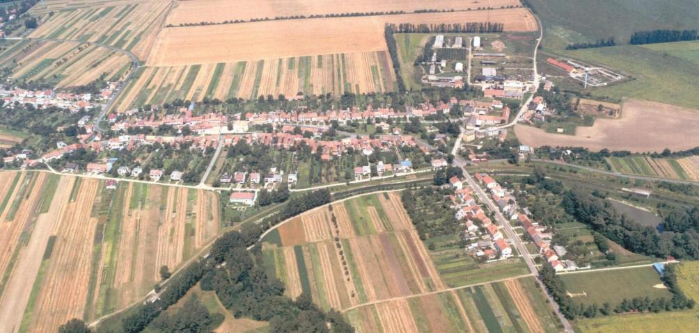 Tasov